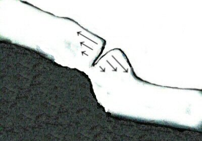 crevasse